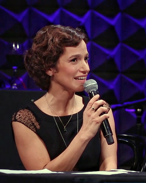 Talk show host Catie Lazarus during an Employee of the Month show at Joe's Pub in 2015